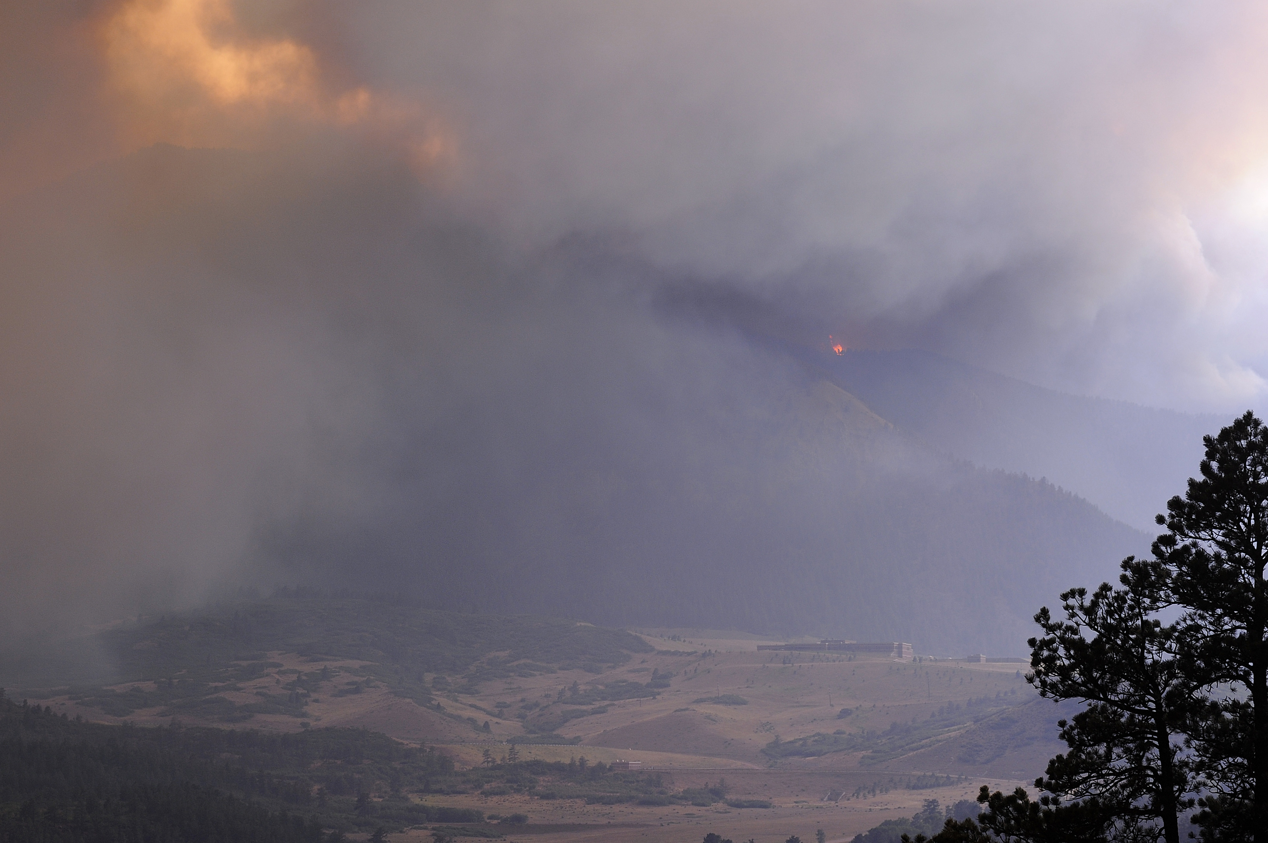 A tremendous smoke cloud builds around the southwest side of U.S. Air Force Academy in Colorado Springs, CO on June 26, 2012. Winds in excess of 65 mph created billowing and rapidly building smoke from the local Waldo Canyon fire. (U.S. Air Force photo/Mike Kaplan)